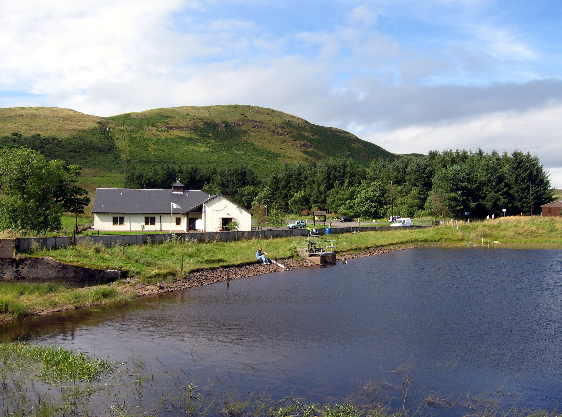 The Cornalees Bridge Centre next to the compensation reservoir at the outlet to Loch Thom provides nature study and outdoor access facilities including walks along The Cut which originally to the loch waters to the town of Greenock in Inverclyde, Scotland. Grid reference NS247721